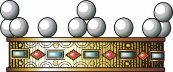 Baron of Livland crown